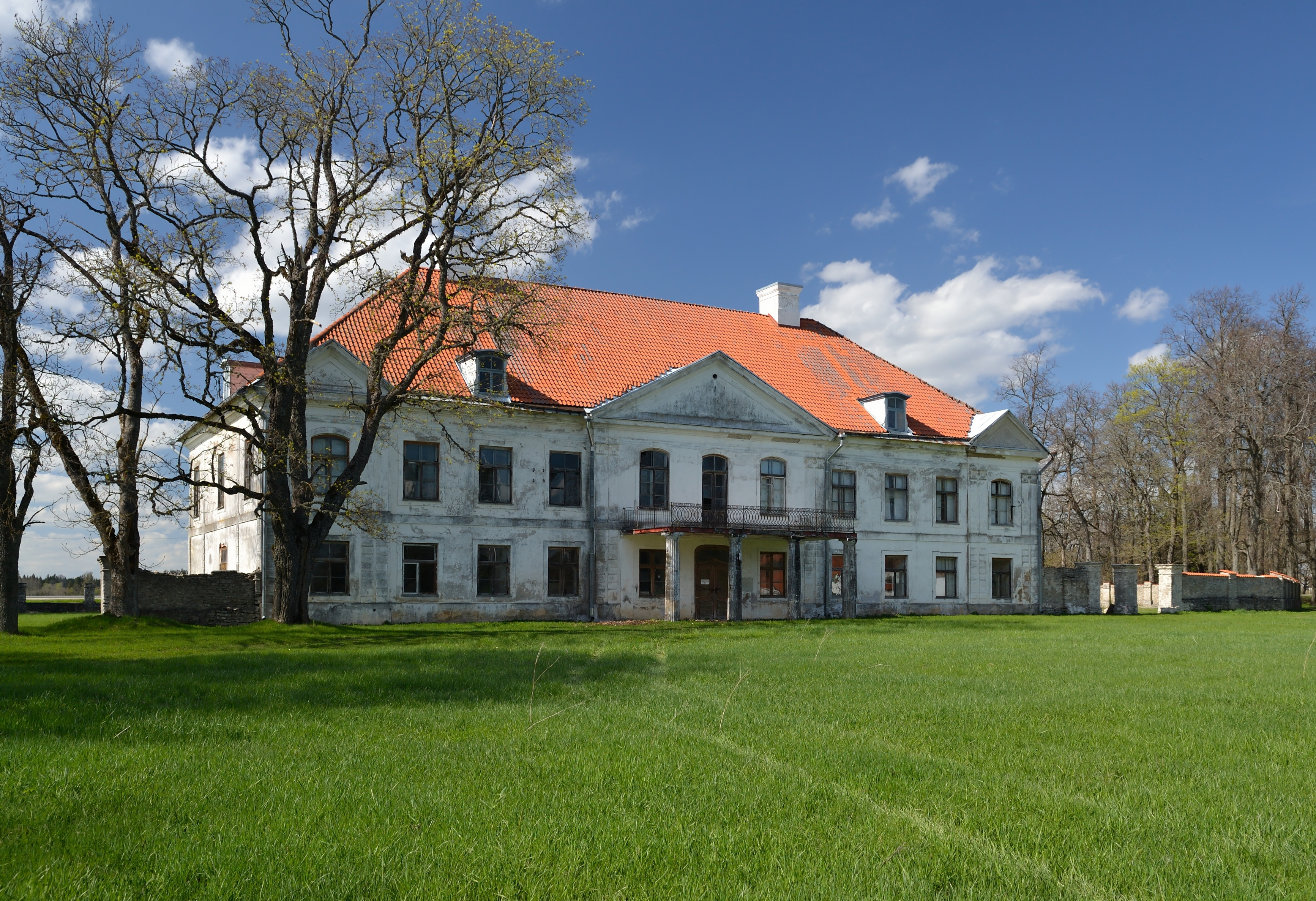 Seidla manor main building